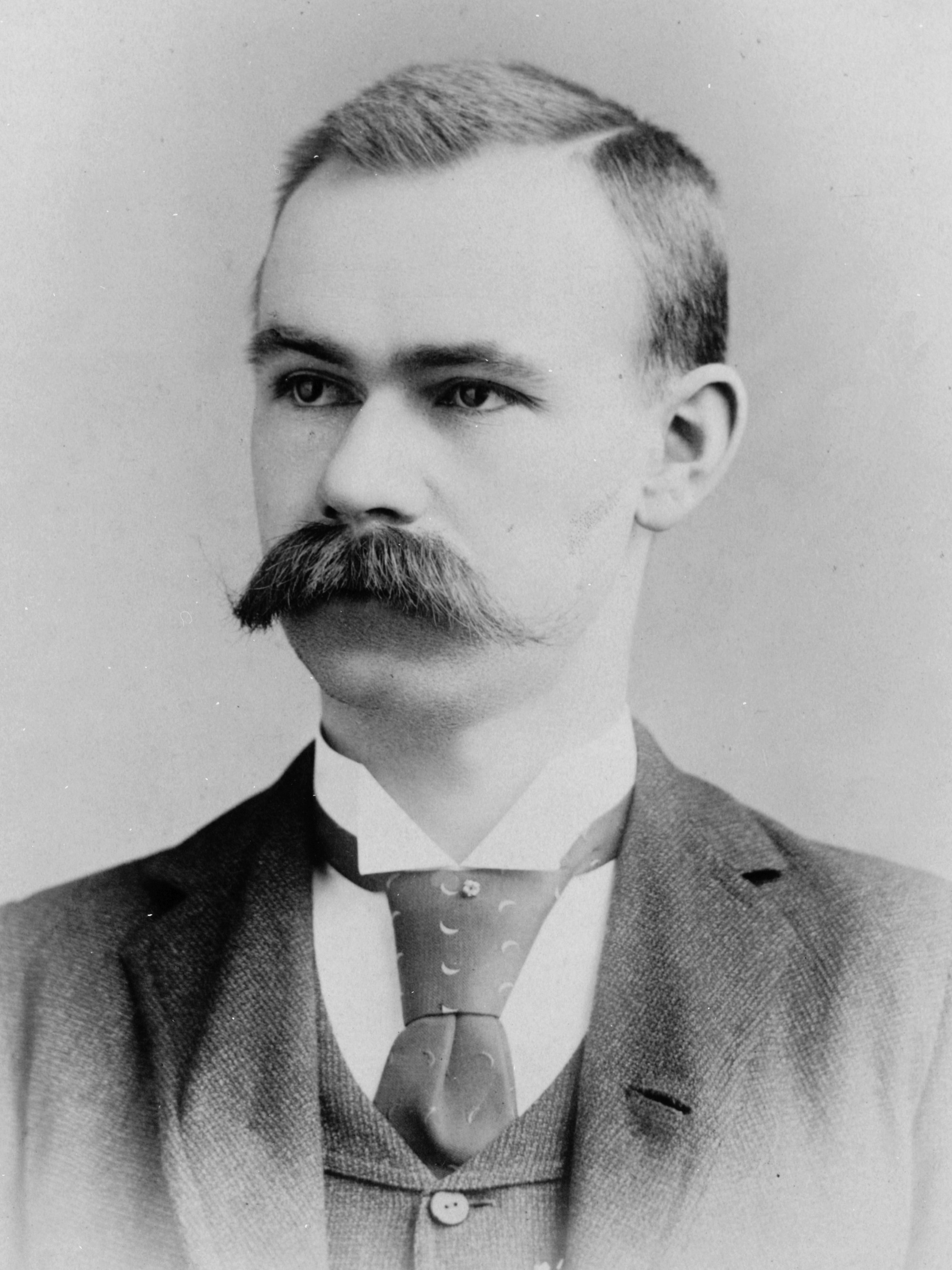 Herman Hollerith, head-and-shoulders portrait, facing left (taken in Washington, D.C.)